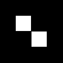 Phantom image of two squares, used as source for sinogram